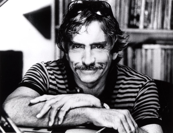 One of the most heralded dramatists of the twentieth century and winner of three Pulitzer Prizes.